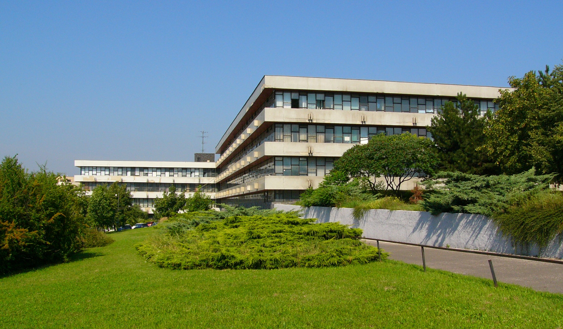 Buildings of FMFI UK, Bratislava, July 2008